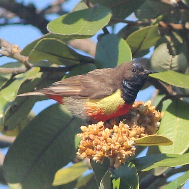 Anchieta's sunbird at Cuchi, Angola